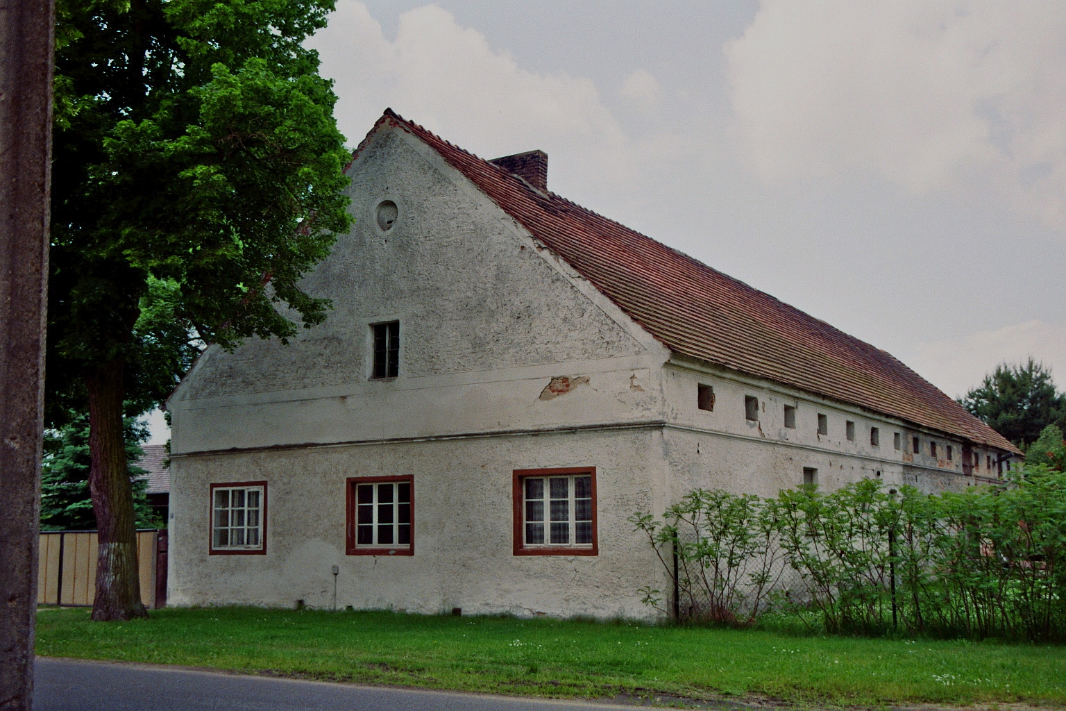 House at Main Street (Hauptstraße) in Butzen, Spreewaldheide, Landkreis Dahme-Spreewald, Brandenburg, Germany.